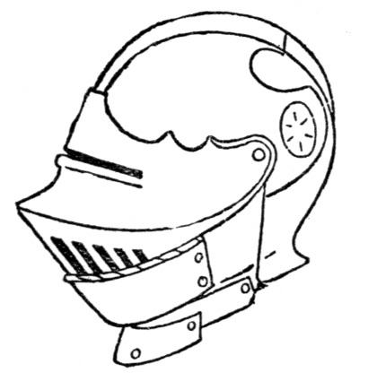 Fig. 602. More like the sixteenth-century helmet than File:Complete Guide to Heraldry Fig601.png, for it opens down the sides instead of down the chin and back, and the same pivot which secures the visor also serves as a hinge for the crown and chin-piece. The small mentonnière, or bavier, is equal on both sides, but it was often of less extent on the right. Date about 1500.